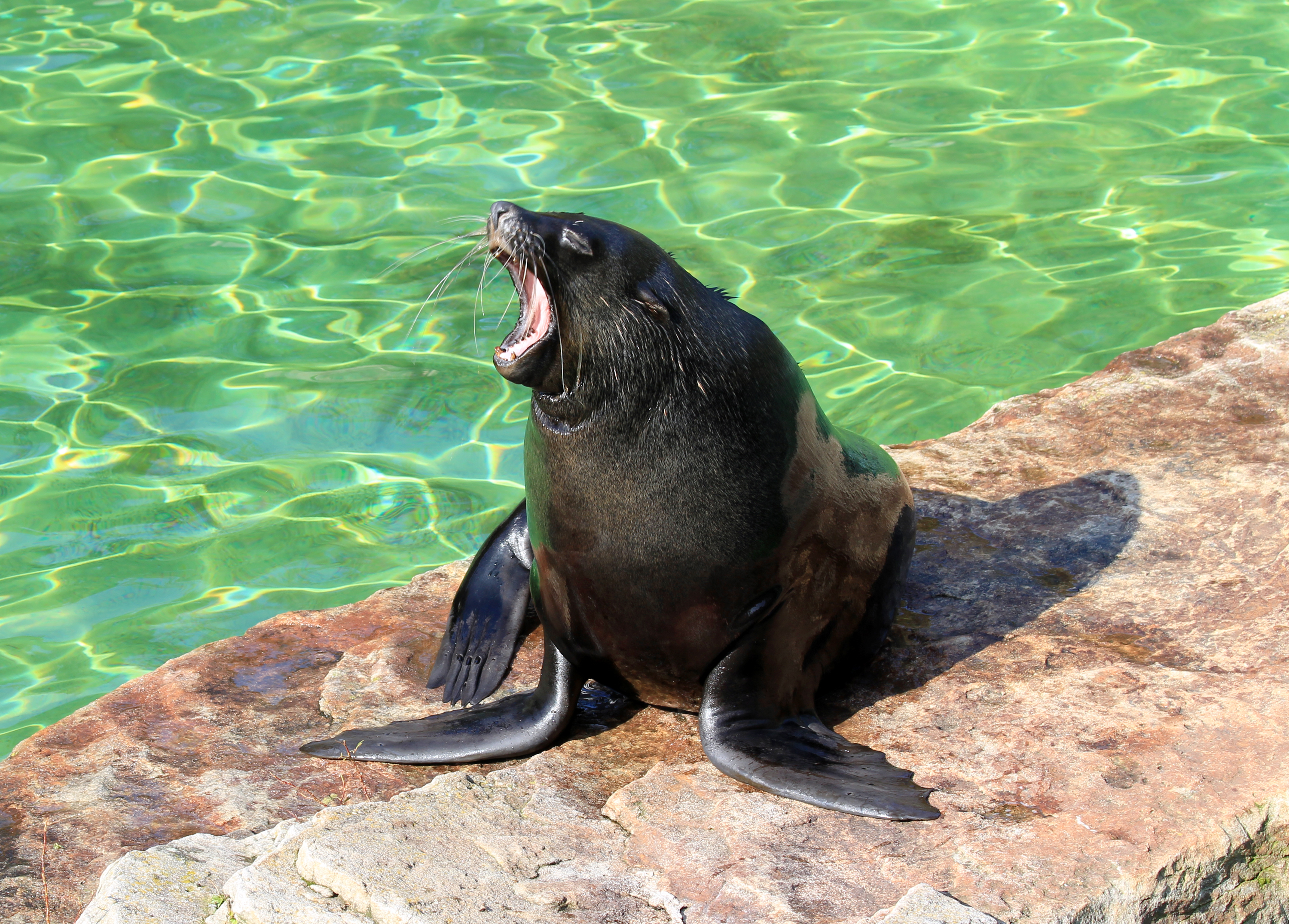 Brown Fur Seal (Arctocephalus pusillus) in Prague Zoo, Czech Republic